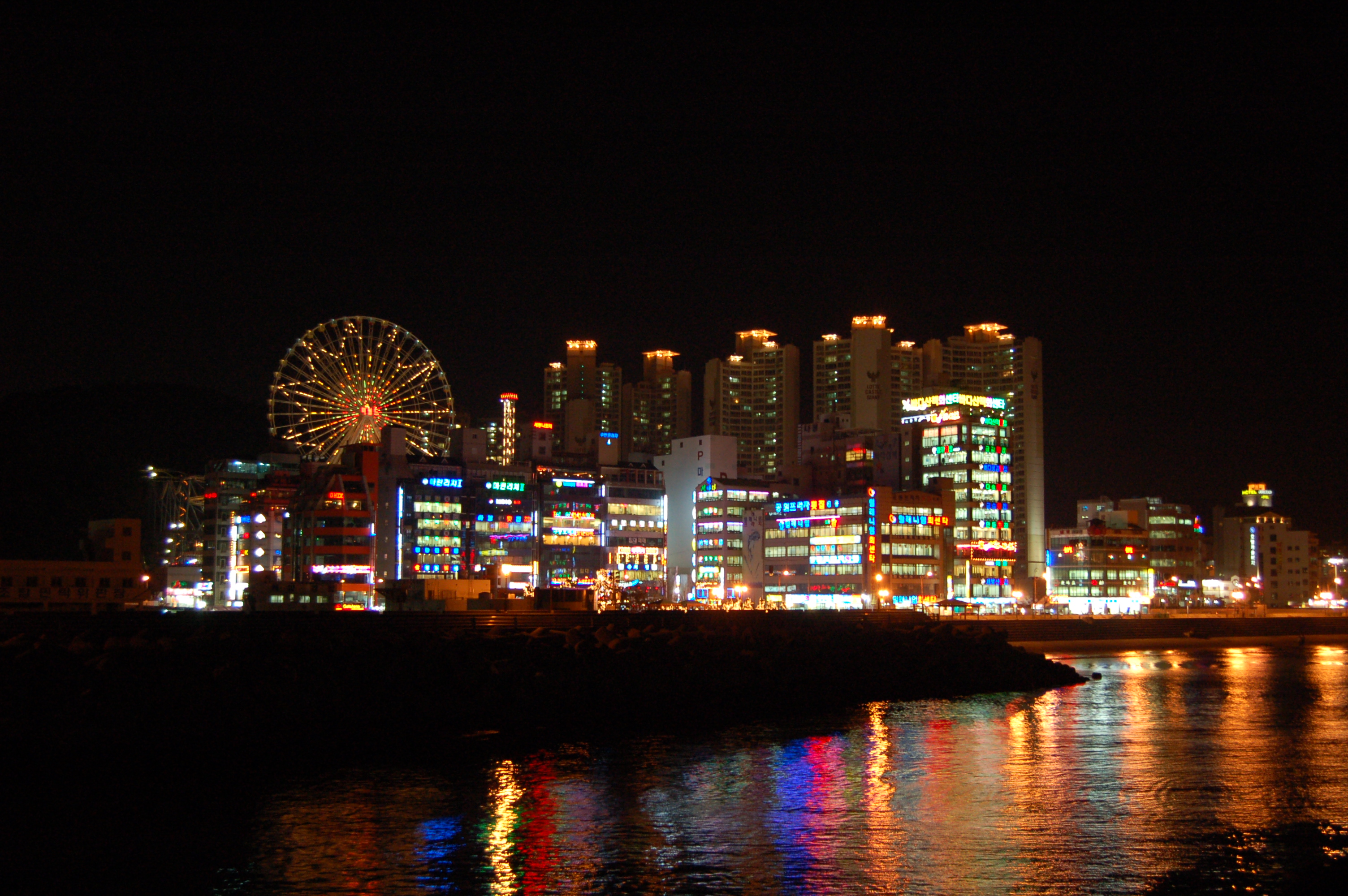 A night view of Busan, South Korea